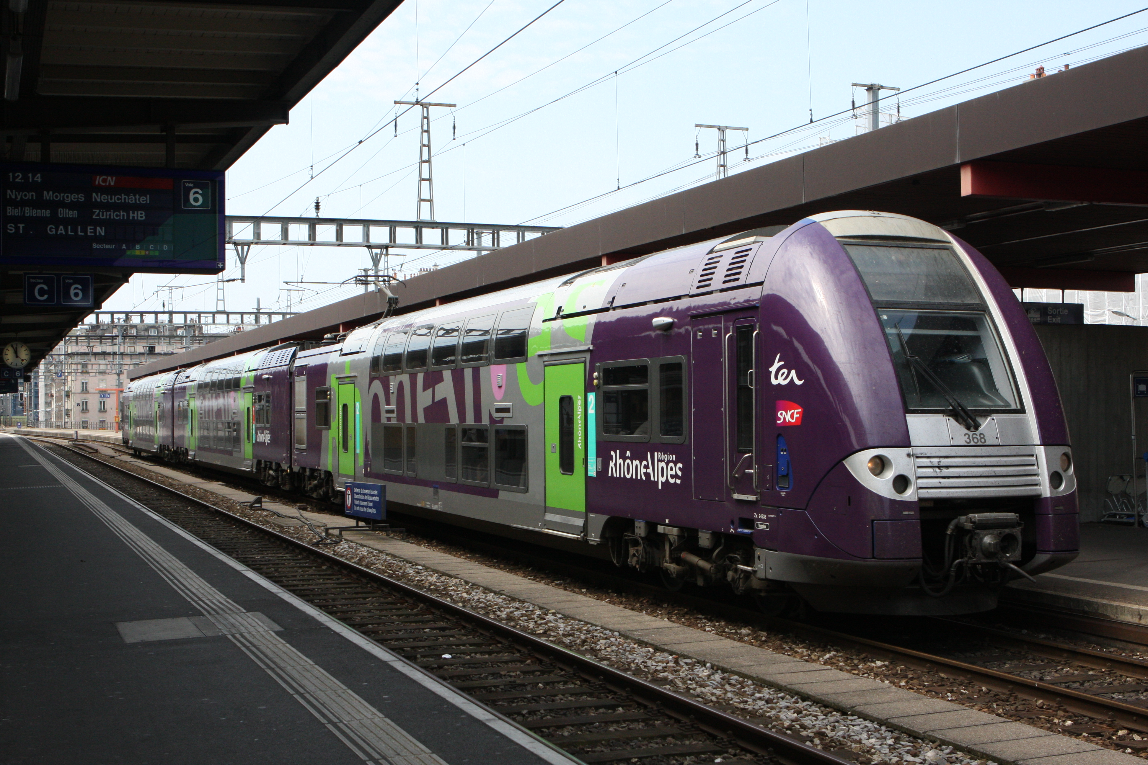 SNCF Alstom Coradia Duplex Ter